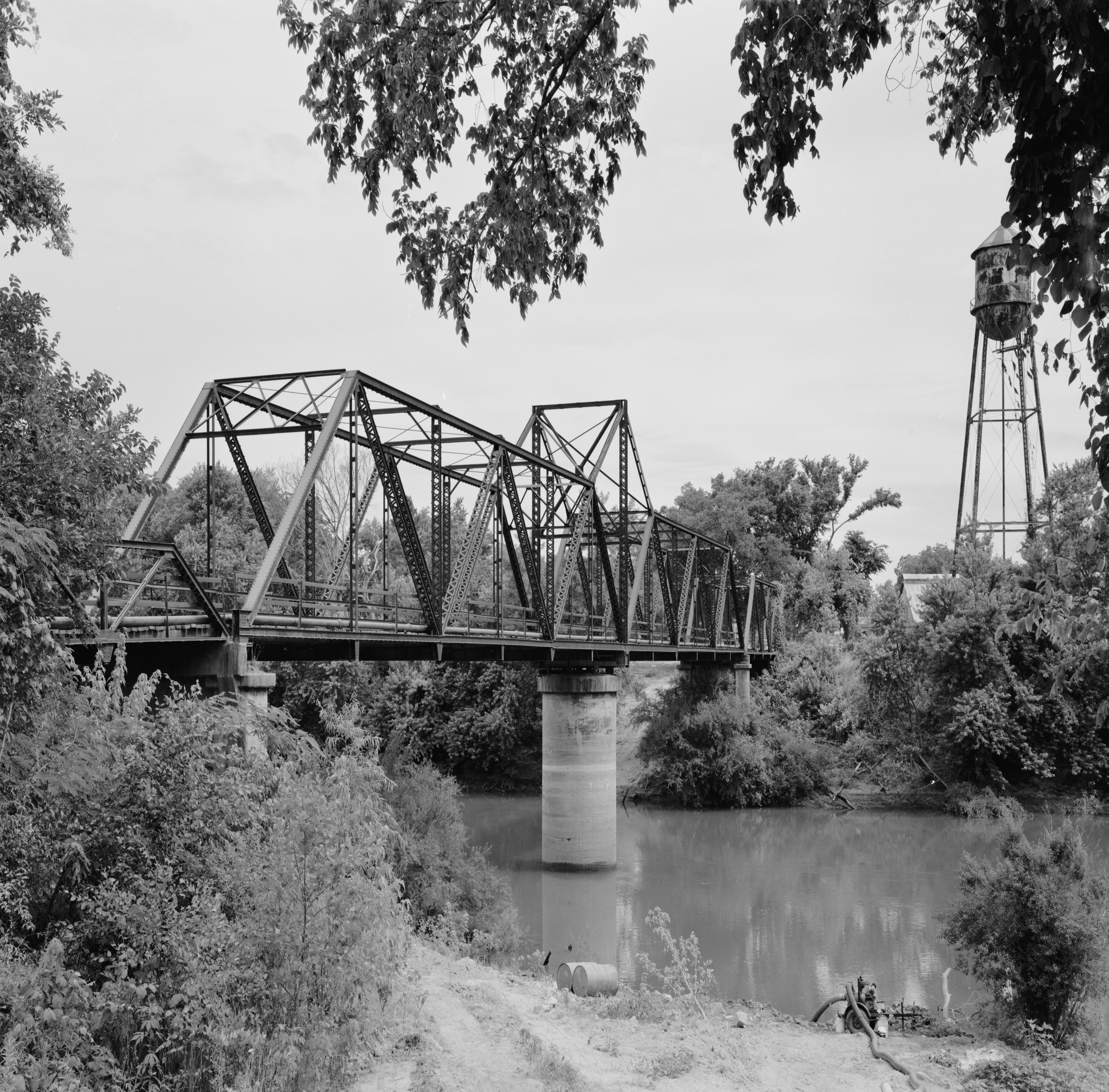 Eastern (downstream) side of the Judsonia Bridge, which carries County Road 66 over the Little Red River near Judsonia in White County, Arkansas, United States. Built in 1924, this Warren swing through truss bridge is listed on the National Register of Historic Places.